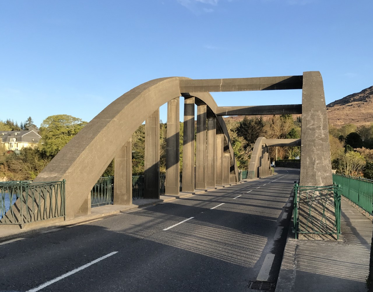 County Kerry, Kenmare Bridge. Wikidata has entry Q55046545 with data related to this item.